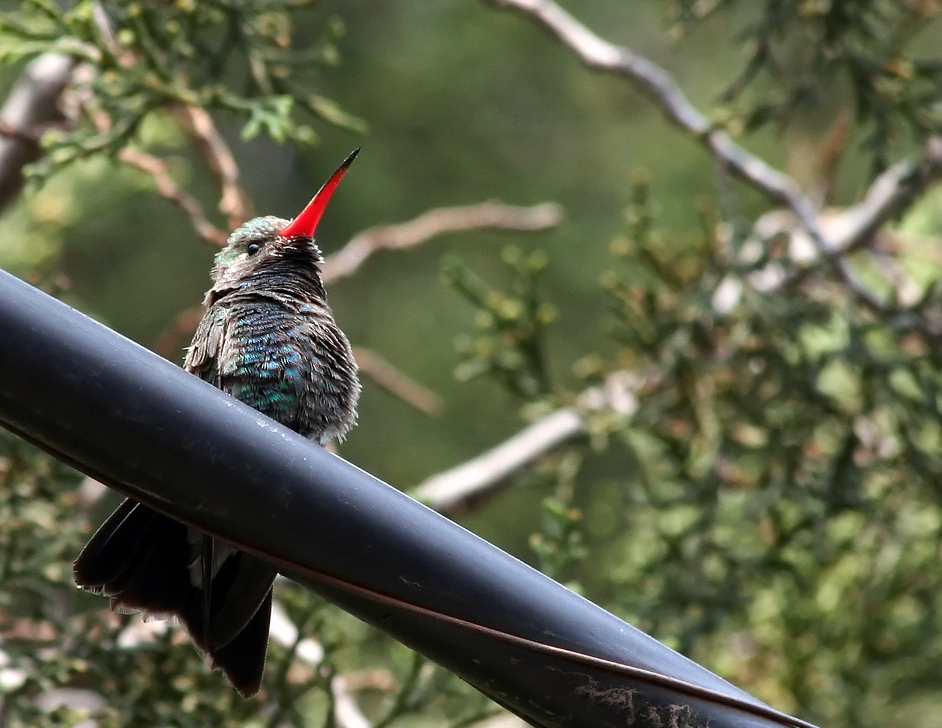 Cynanthus latirostris, Broad-billed Hummingbird, colibri piquiancho, trochilidae, apodiformes